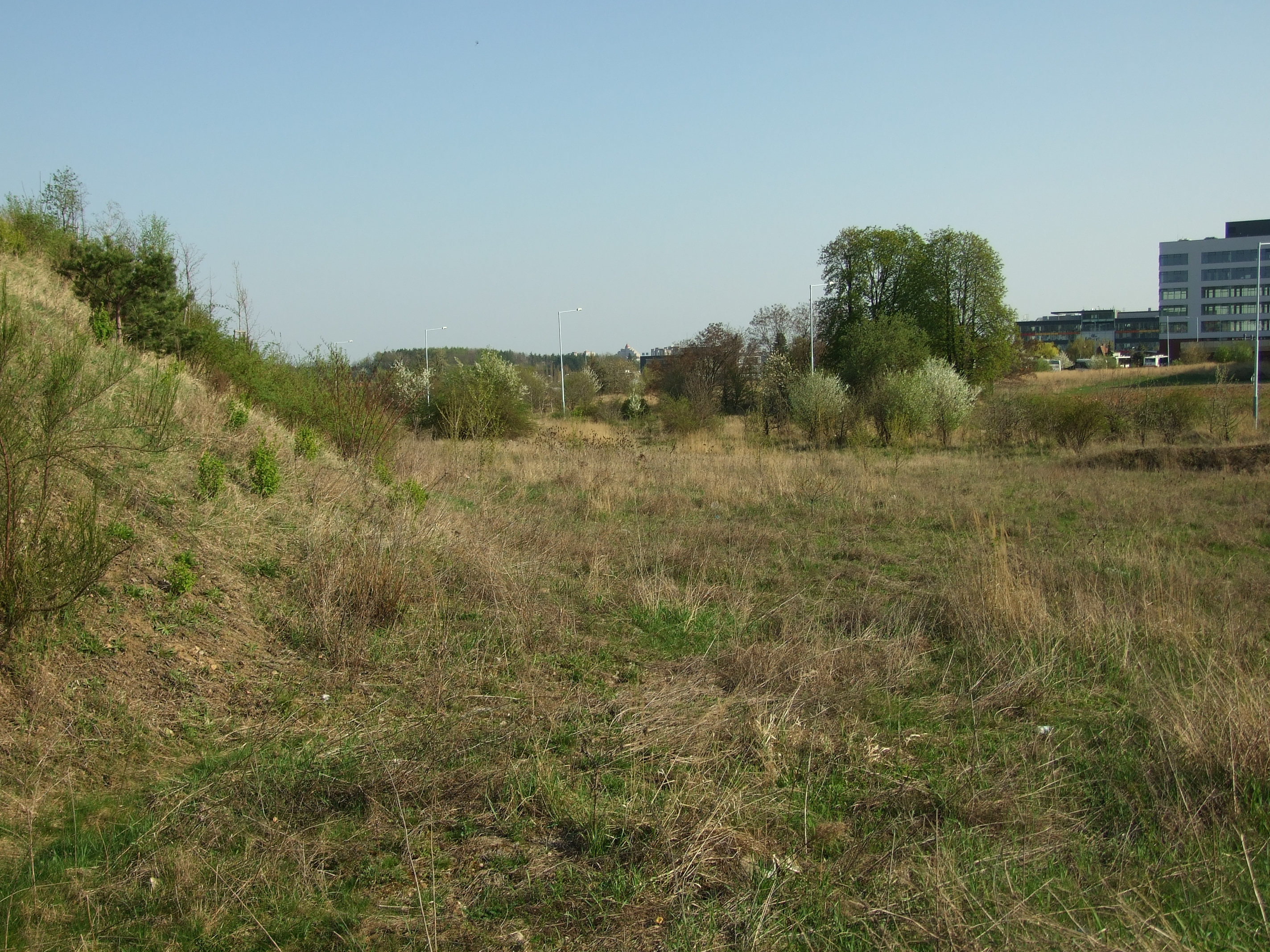 Future site of Radlická radiála, expressway in Prague, CZ